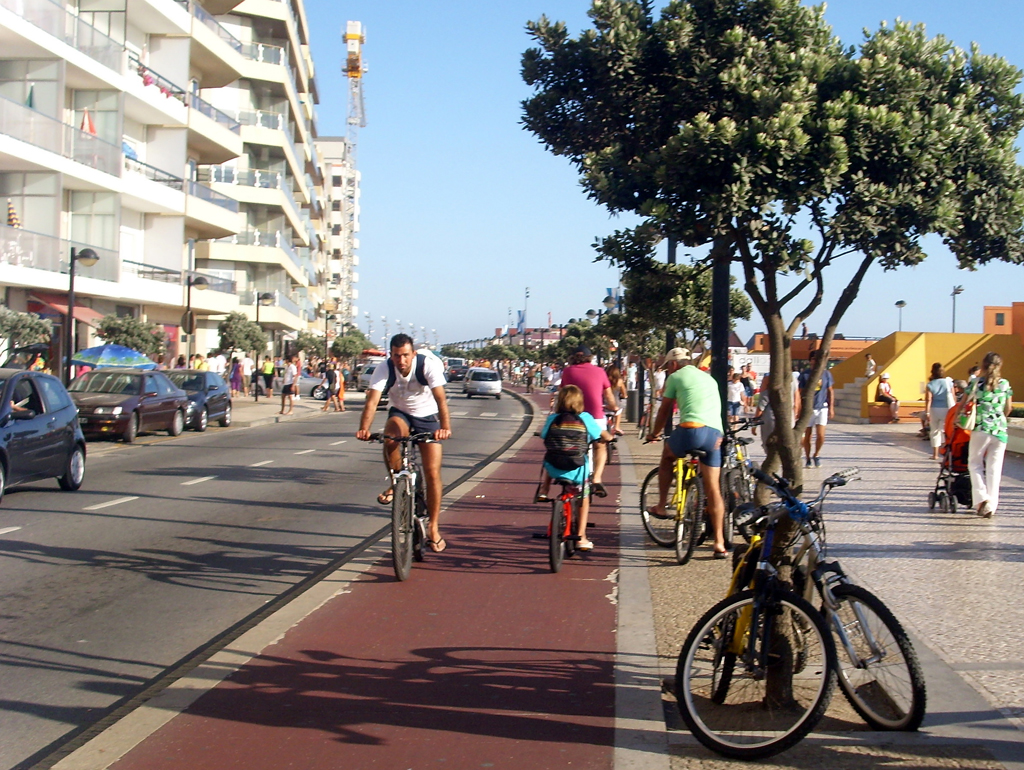 Bicycle Path in Póvoa de Varzim watrerfront